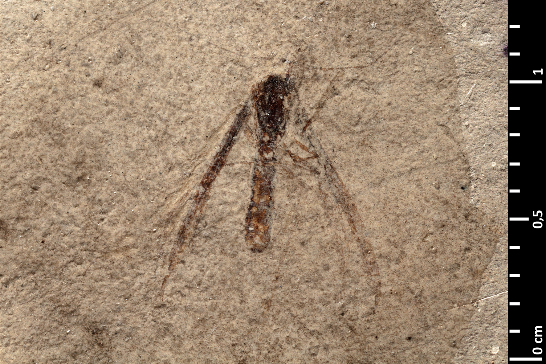 The Merrifieldia oligocenicus (synonym Pterophorus oligocenicus) holotype specimen with direct lighting. Chattian, Oligocene; Niveau du gypse d'Aix Formation, Aix-en-Provence, Bouches-du-Rhône, Provence-Alpes-Côte d'Azur, France Muséum national d'Histoire naturelle specimen MNHN.F.B47277